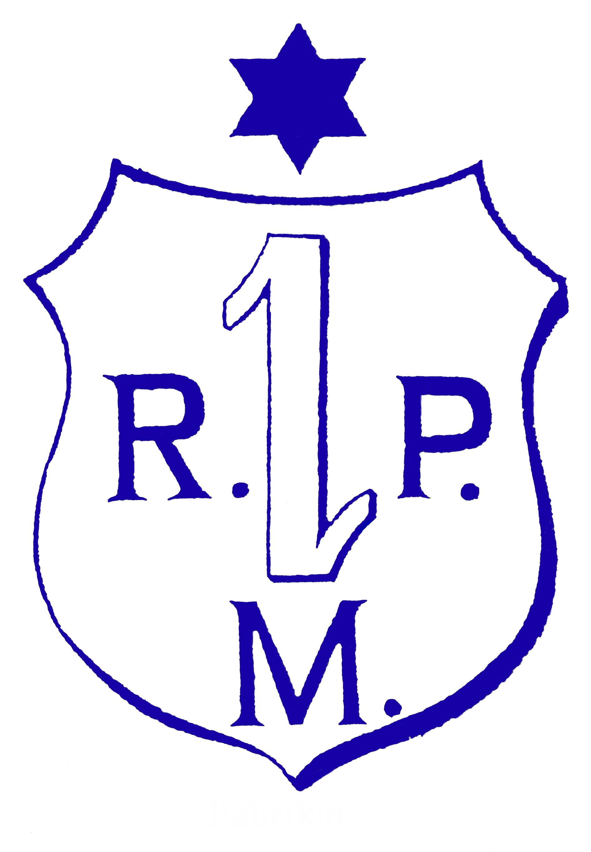 Comapany Logo